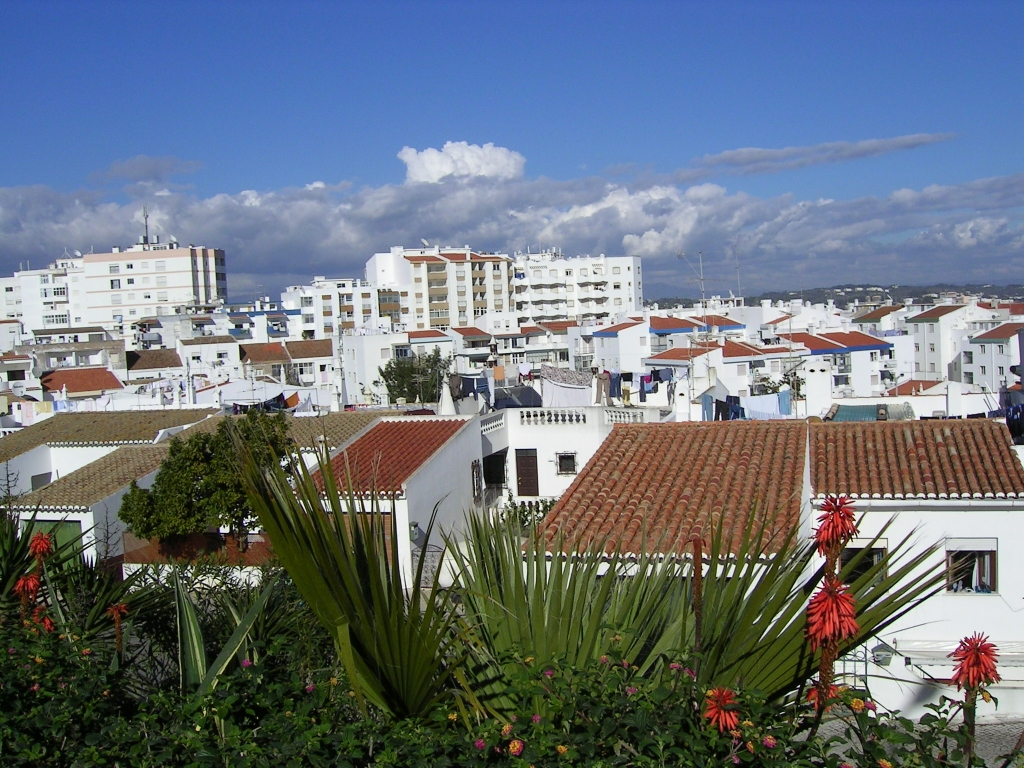 Cityscape of the city of Lagos, Algarve, Portugal.